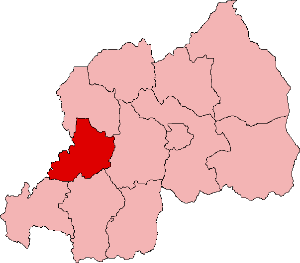 Map of Rwanda showing Kibuye Province; created with the GIMP. Made by User:Acntx.